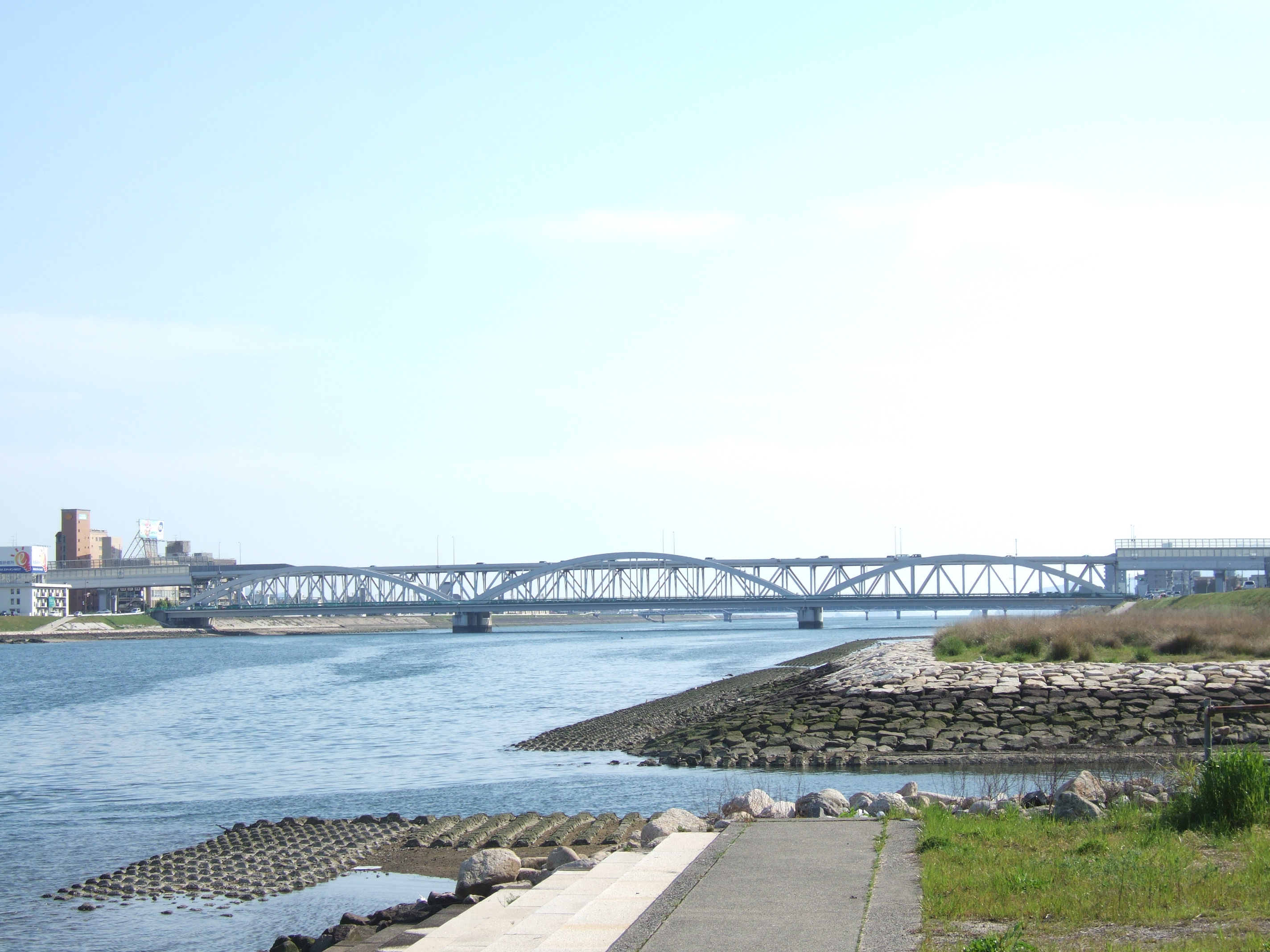 Asahi Bridge laid in Ohta River Diversion Channel at Hiroshima